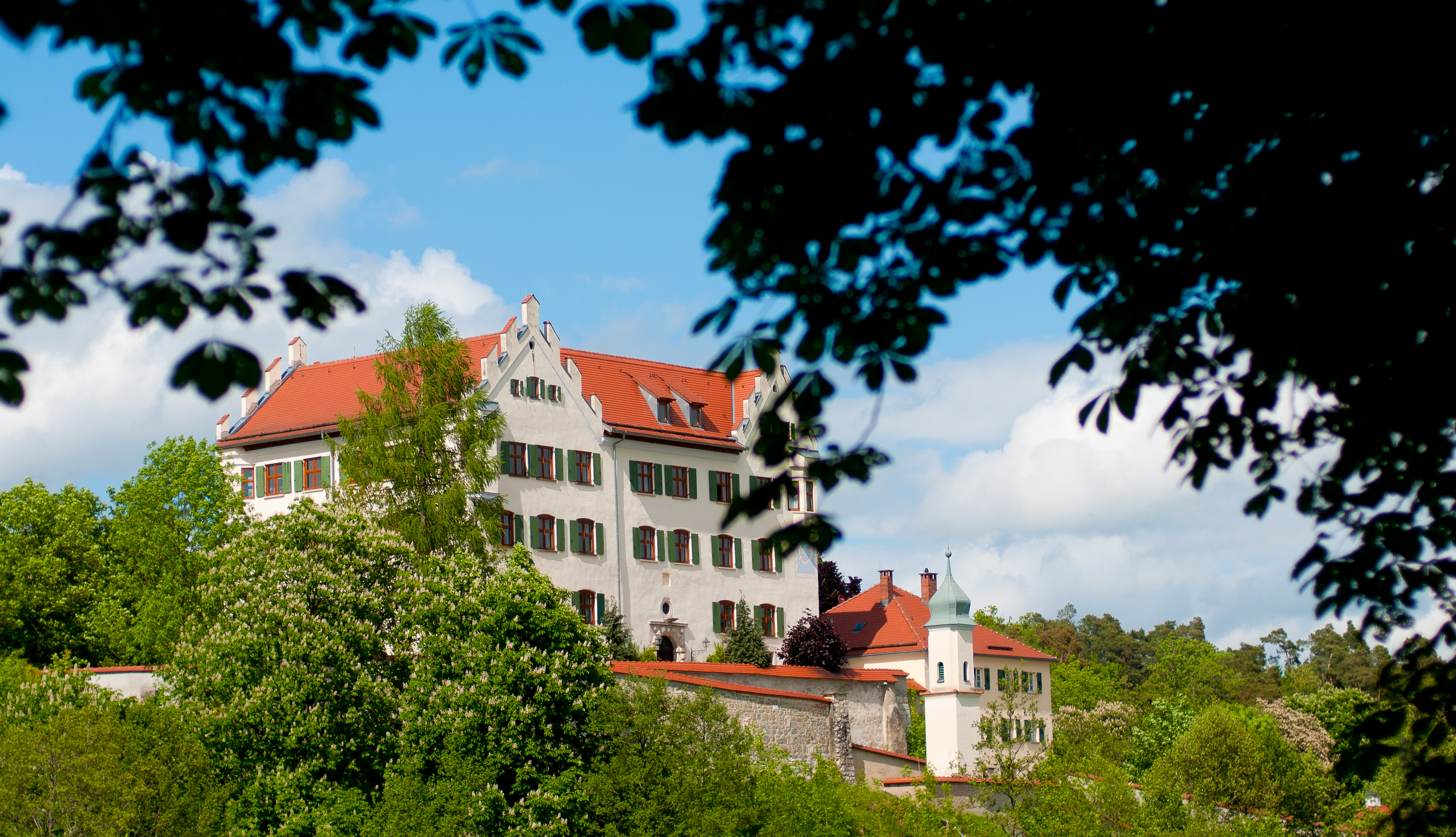 Idyllic. Wouldn't mind peeking inside, but it's privately owned.